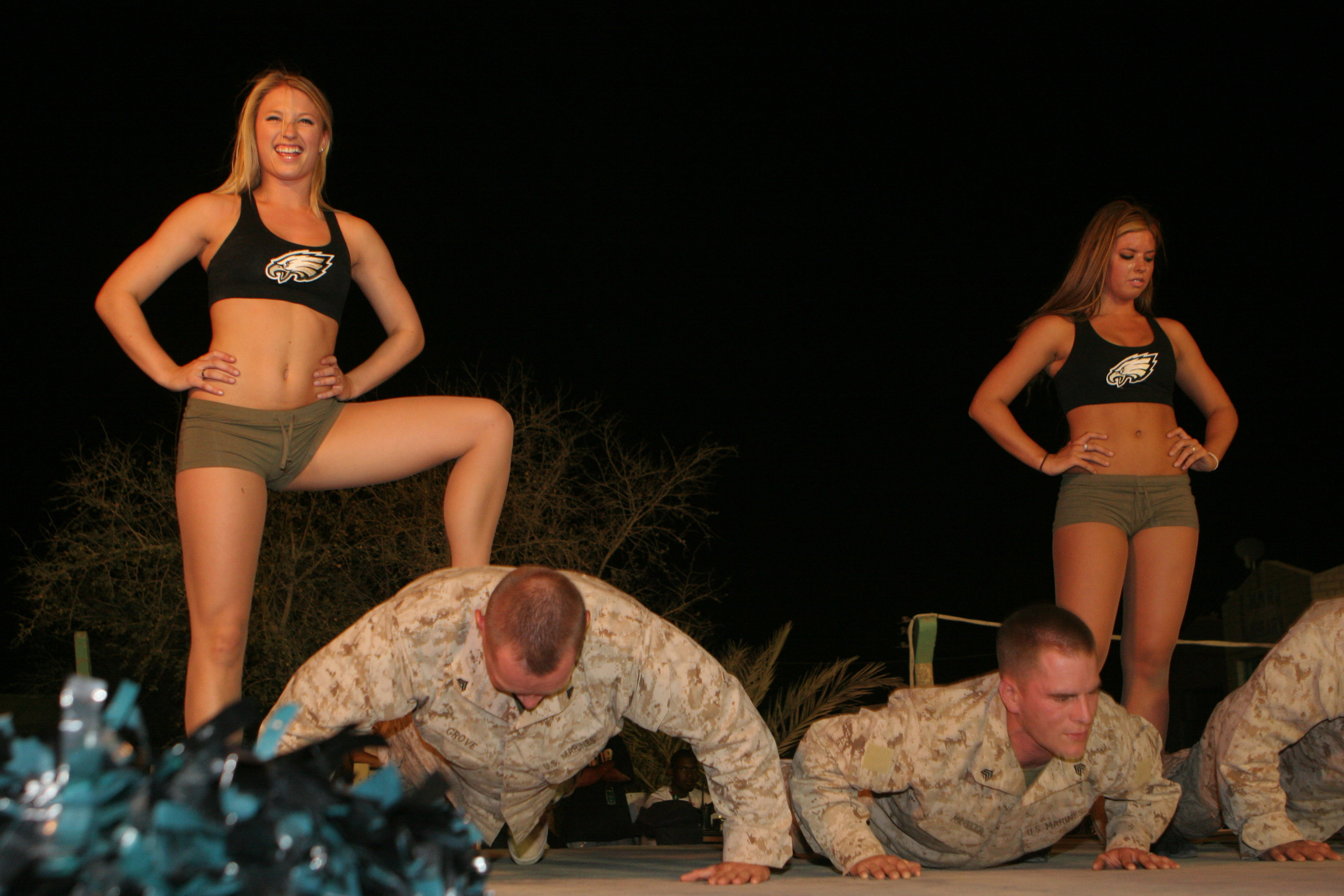 Philadelphia Eagles cheerleaders hold a push-up competition during their routine for service members. The five cheerleaders are touring Iraq to show their support for the troops and to help boost morale. The group performed a 45 minute act which included costume changes and interaction with the service members. Their show also included a cheer-off with selected service members who received prizes at the end. The group stayed long after their performance and posed for photos after the show. Unit: 1st Marine Logistics Group DVIDS Tags: service members; push-ups; cheerleaders